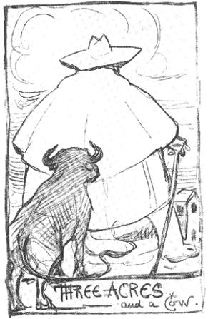 Drawing by Chesterton